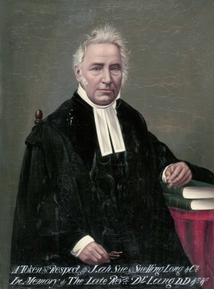 John Dunmore Lang, Australian politician and clergyman